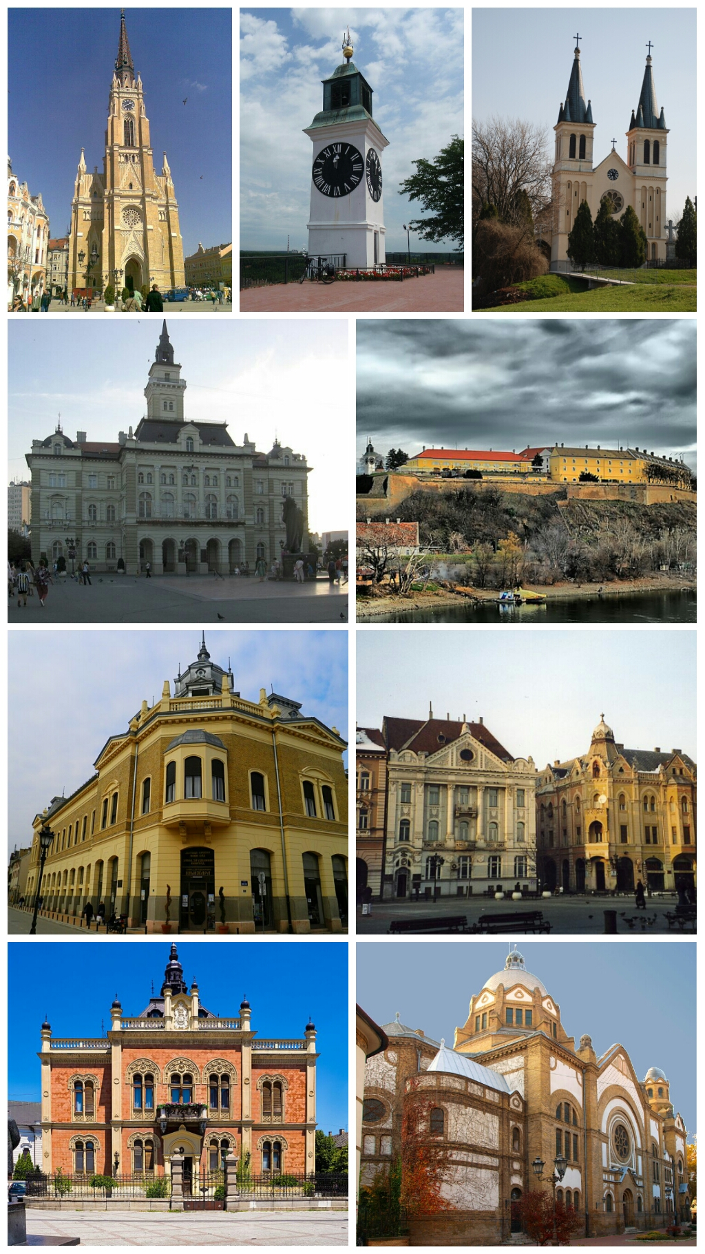 Photo collage of Novi Sad (The Name of Mary Church, Petrovaradin Clock Tower, The Our Lady of Snow ecumenic Church, Town Hall, Petrovaradin Fortress, Building of the Matica srpska, Liberty Square, Bishop Palace, Synagogue in Novi Sad)